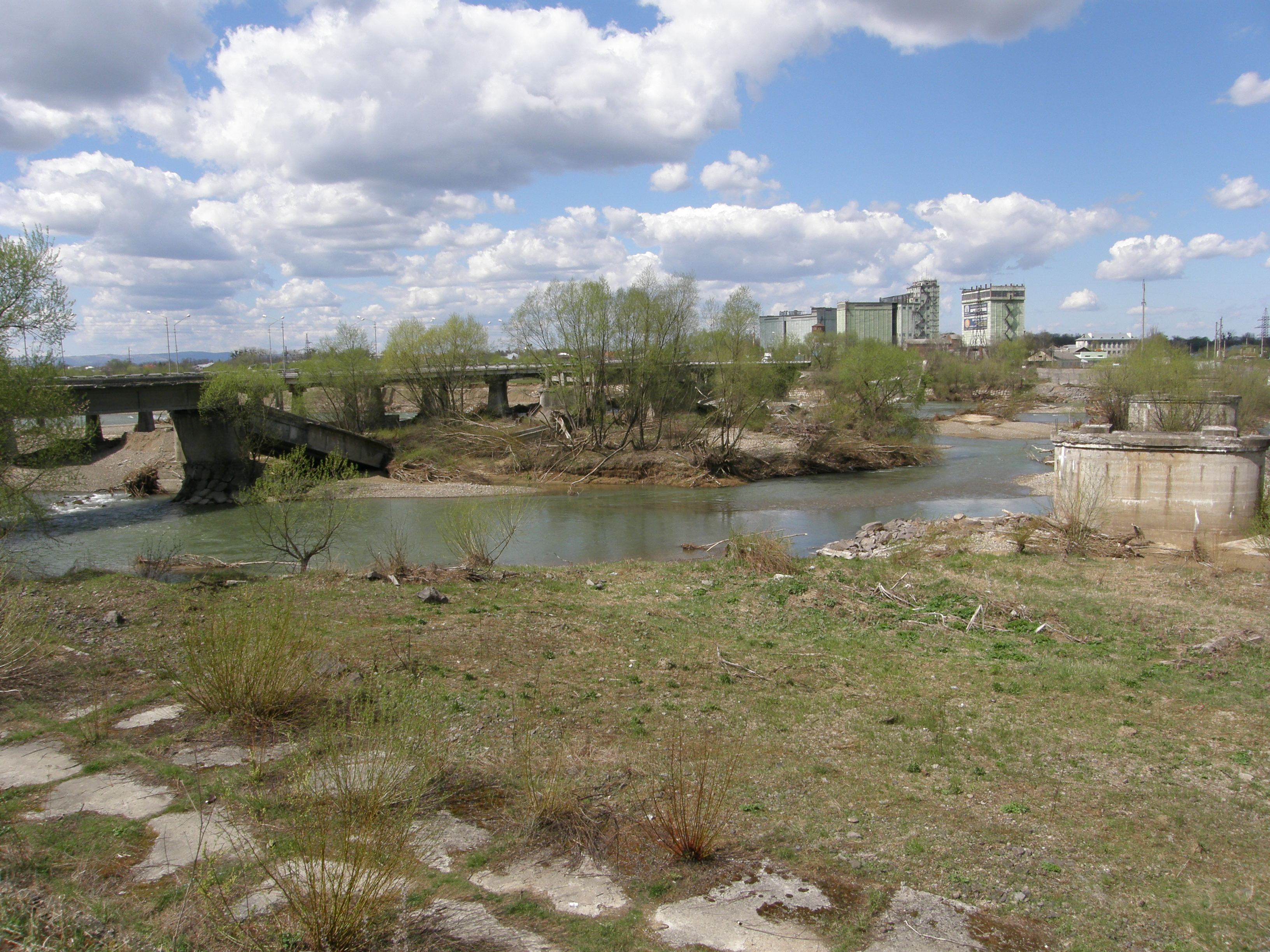 The Stryi River in the city of Stryi